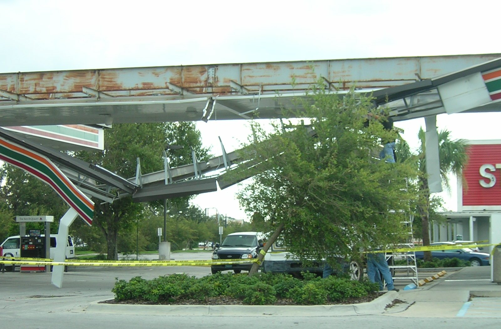 Damage caused to a gas station in Kissimmee, Florida, by Hurricane Charley. Station located on the corner of US Hwy 192 and Orange Blossom Trail.